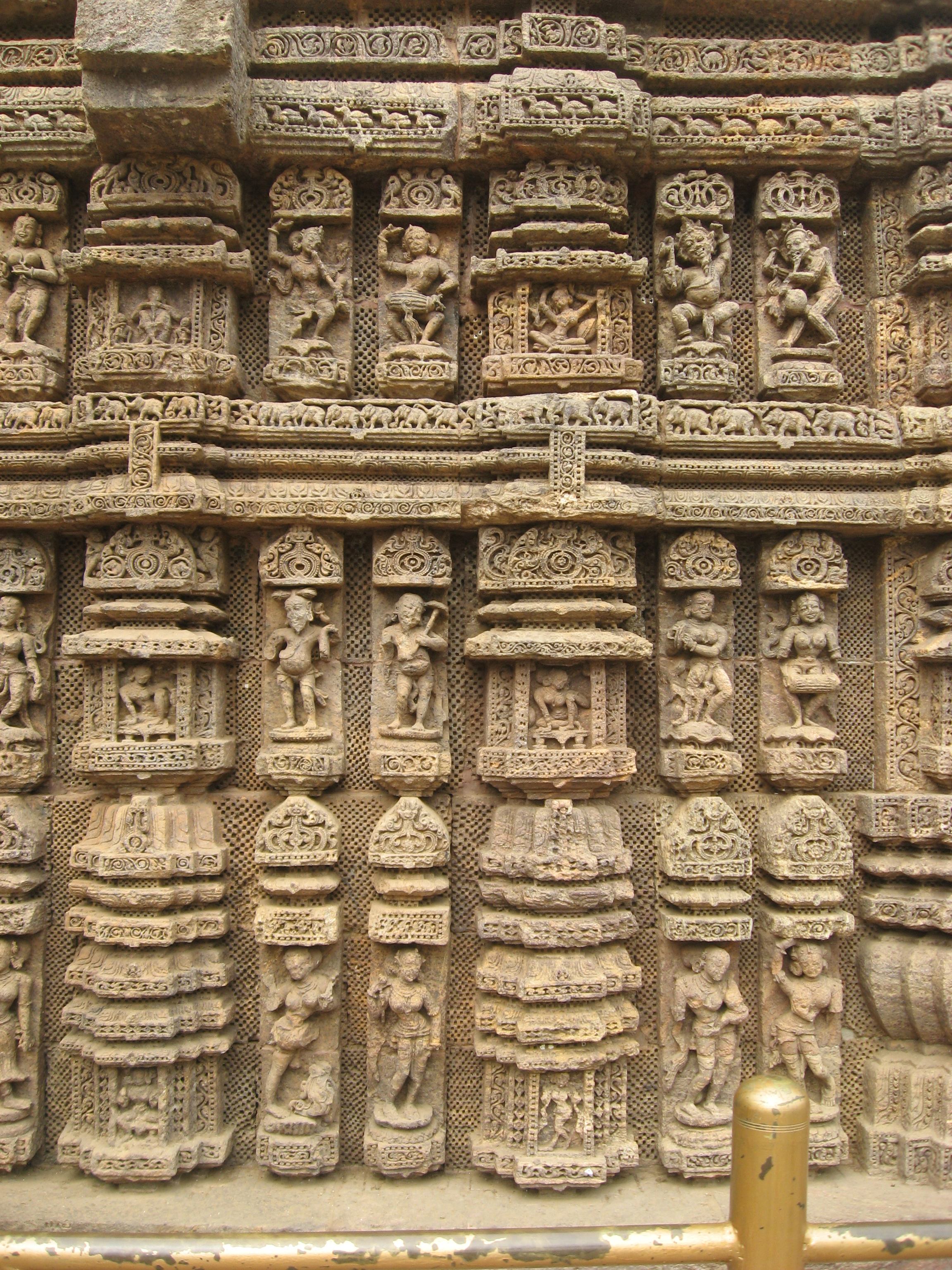 Konark Sun Temple is a 13th-century Sun Temple (also known as the Black Pagoda), at Konark, in Orissa. It was constructed from oxidizing and weathered ferruginous sandstone by King Narasimhadeva I (1236-1264 CE) of the Eastern Ganga Dynasty. The temple is one of the most well renowned temples in India and is a World Heritage Site.